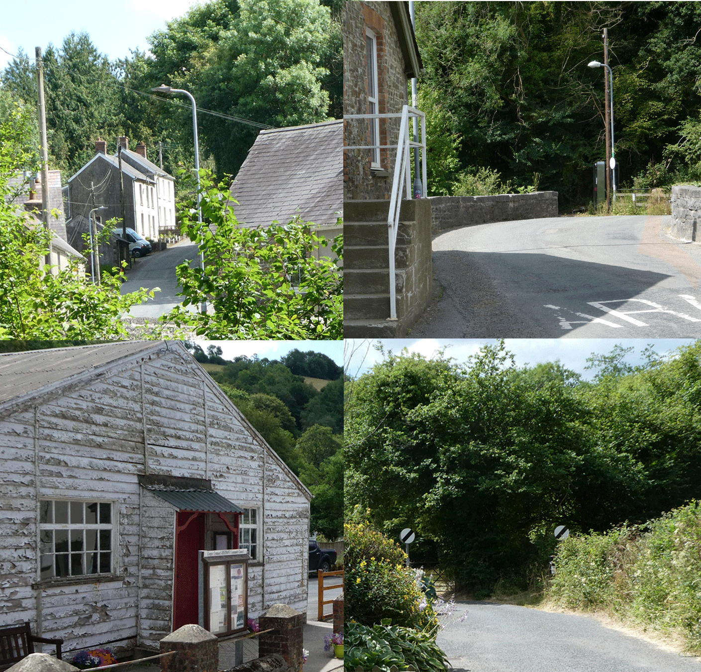 Some views of Talog including the Community Hall, a second-hand army hut, erected in Talog in 1920.